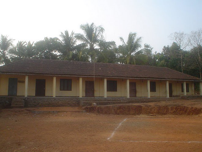 Govt. LP School Nottappuram